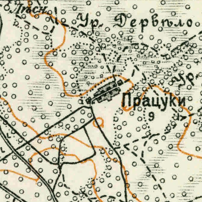 Pratsiuky on the map "Новая Топографическая Карта Западной России", XXVI 21, 1915.